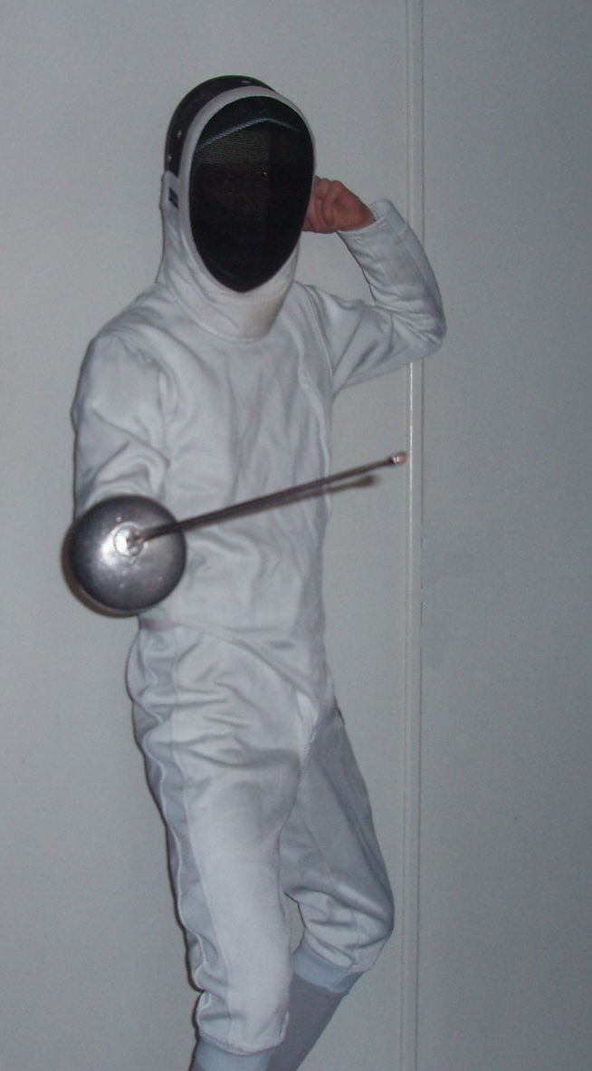 Sixth position in Fencing